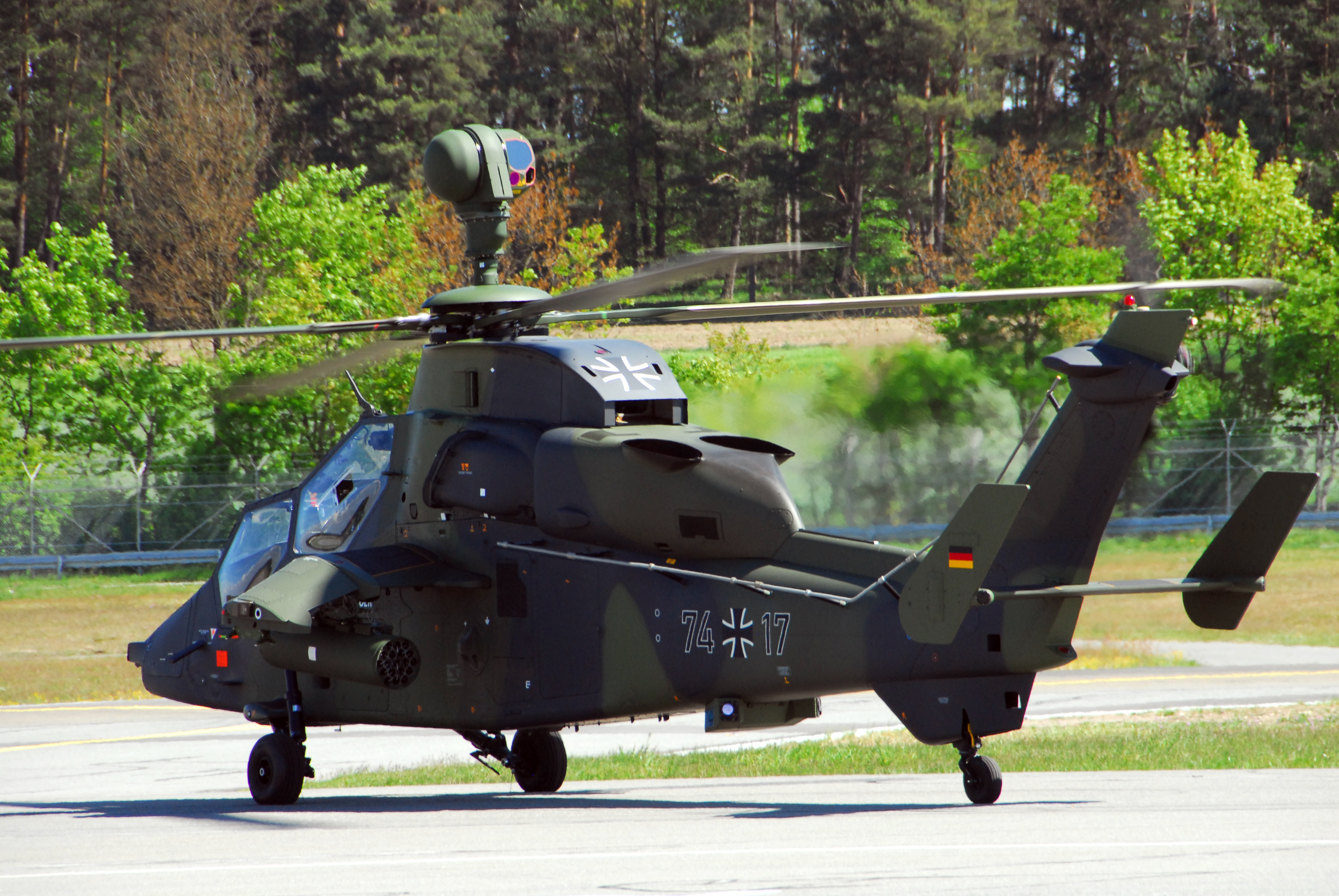 Germany's new Eurocopter Tiger attack helicopter taxis on the flight line at Grafenwoehr Army Airfield before their return flight to their home station. These Tigers represent the first German attack helicopters ever utilized in the German Army.